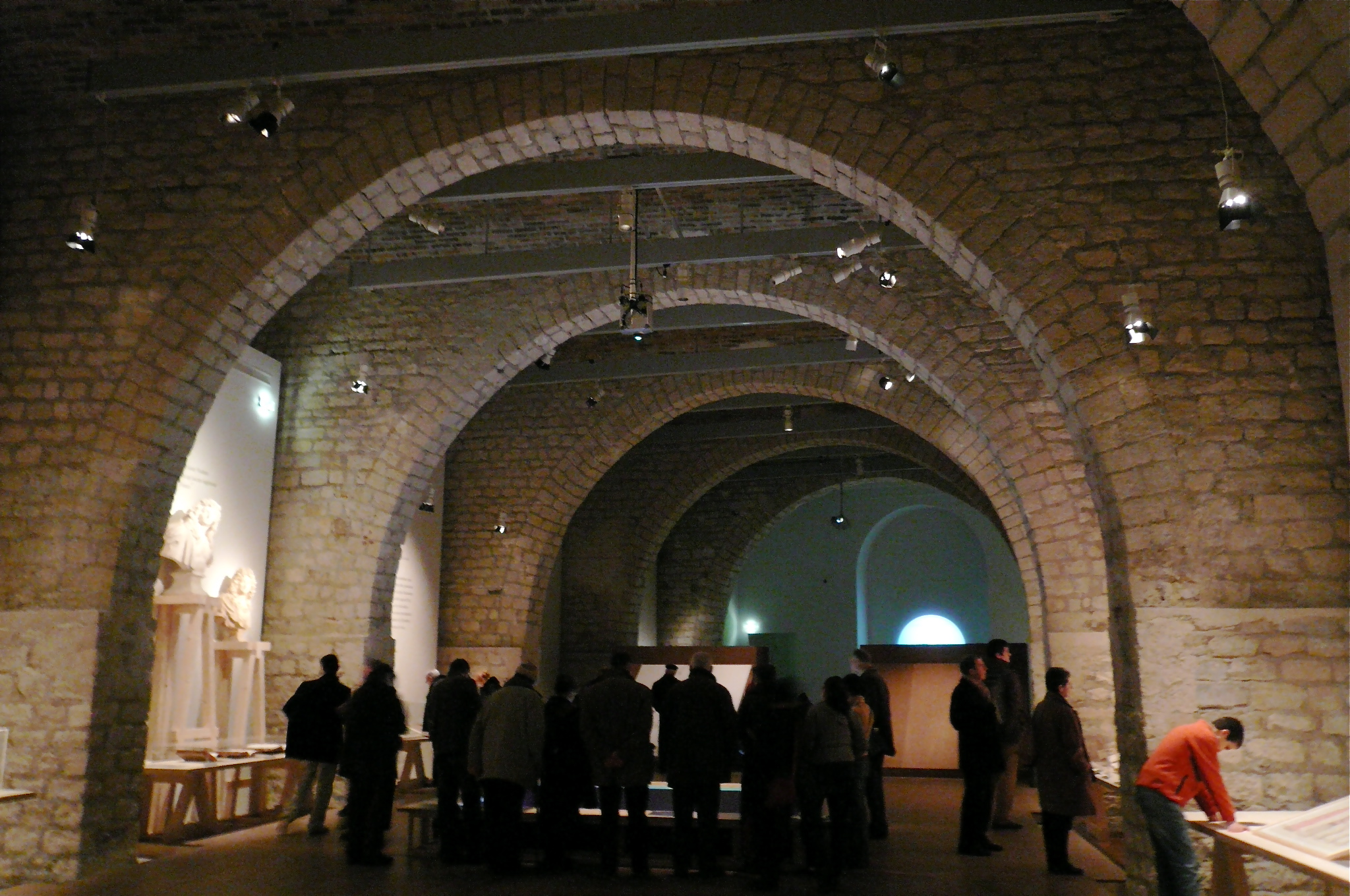 basement temporary exhibition about Vauban